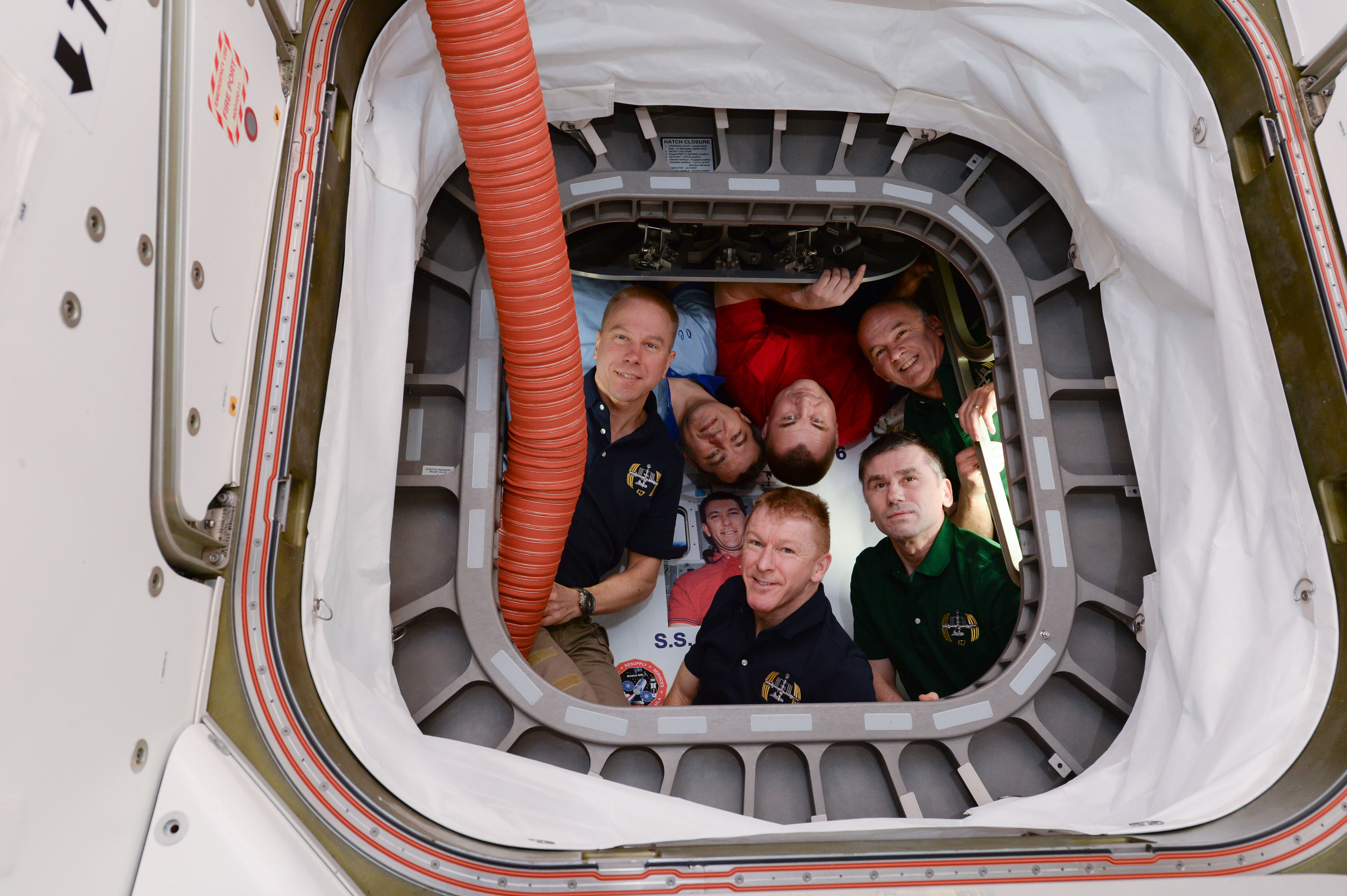 The six crew members of Expedition 47 pose for a picture from inside Orbital ATK's Cygnus vehicle. The resupply craft was named the S.S. Rick Husband in honor of Col. Rick Husband, USAF, the commander of Columbia (STS-107), which was lost during reentry years ago on February 1, 2003. Orbital ATK’s fifth cargo delivery flight under its Commercial Resupply Services contract delivered over 7,700 pounds of cargo and included equipment to support some 250 experiments during Expeditions 47 and 48. Crew from far left going clockwise: NASA's Tim Kopra, Roscosmos' Oleg Skripochka and Alexey Ovchinin, NASA's Jeff Williams, Roscosmos' Yuri Malenchenko, ESA's Tim Peake.